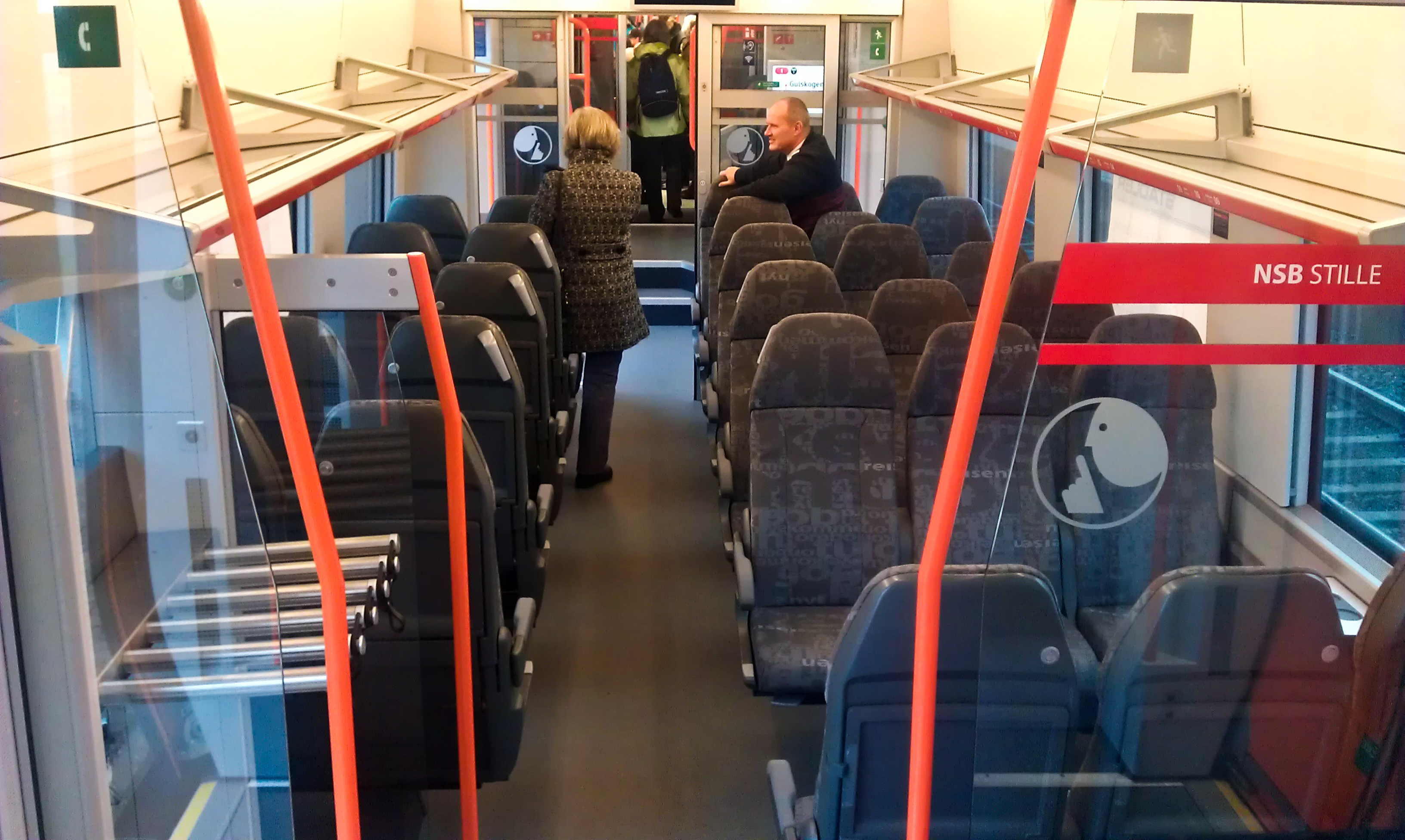 Interior of the NSB type 74 "Flirt" train, built by Stadler Rail AG.